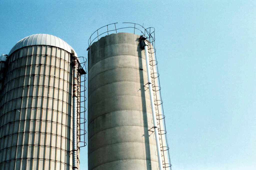 Photo of two farm silos